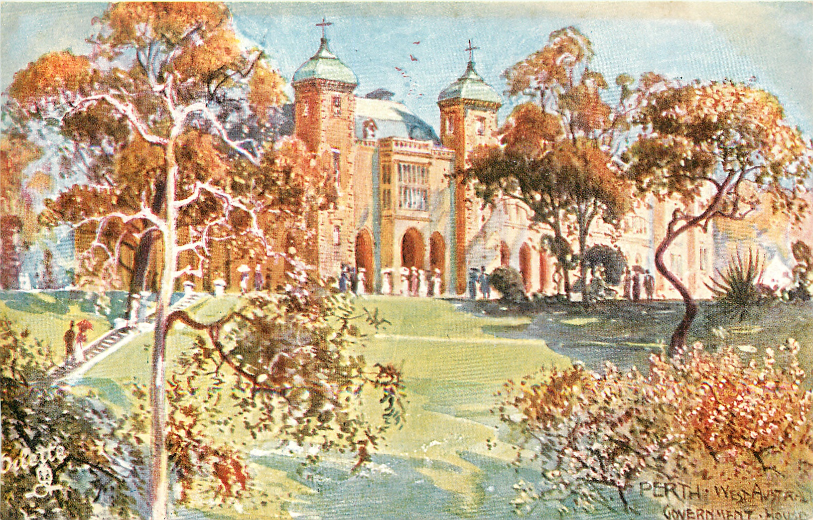 Tucks Oilette postcard 1911/1912